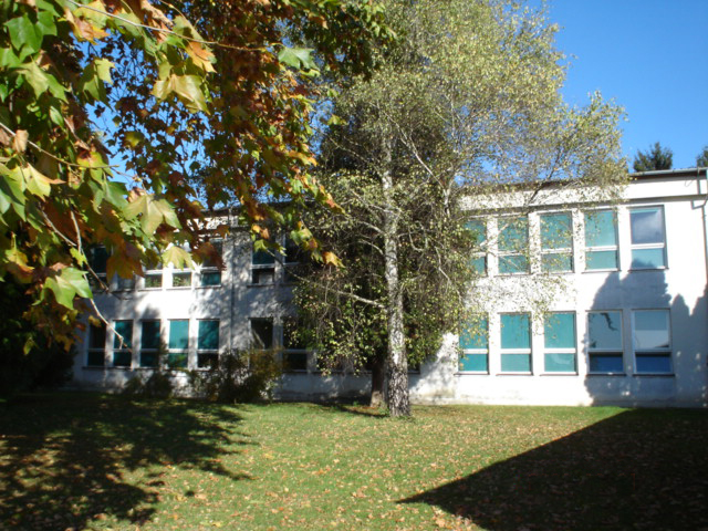 Photo of Jagodnjak Elementary School